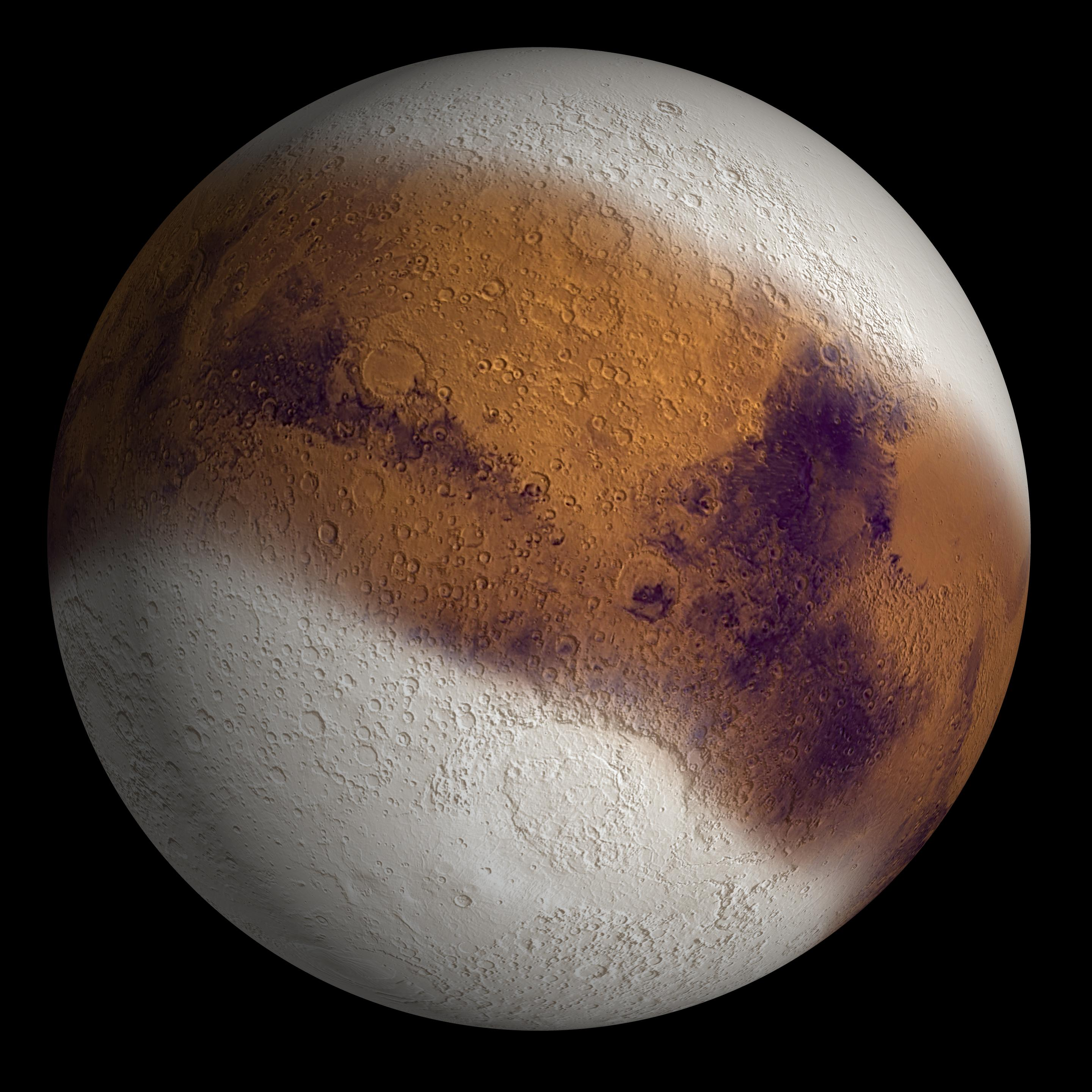 An illustration of what Mars might have looked like during an ice age between 2.1 million and 400,000 years ago, when Mars's axial tilt is believed to have been much larger than today. This illustration was prepared for the cover of the December 18 2003 issue of the journal Nature.